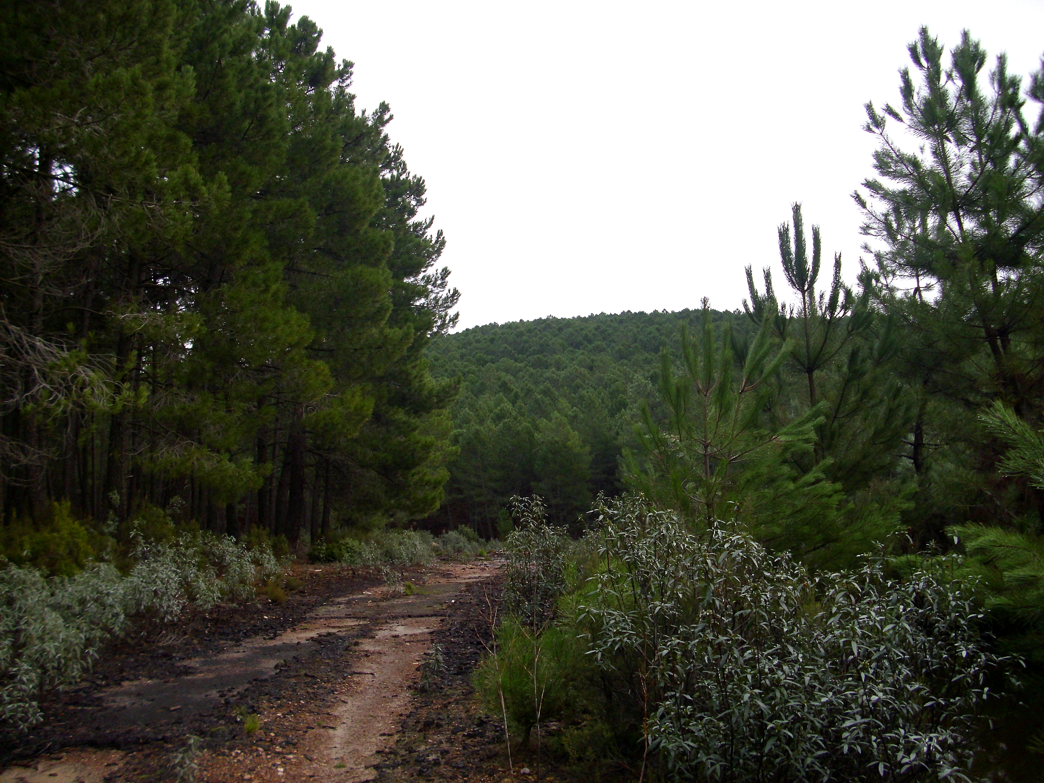 Pinus pinaster reforestation in the 60, Sierra Madrona, Spain